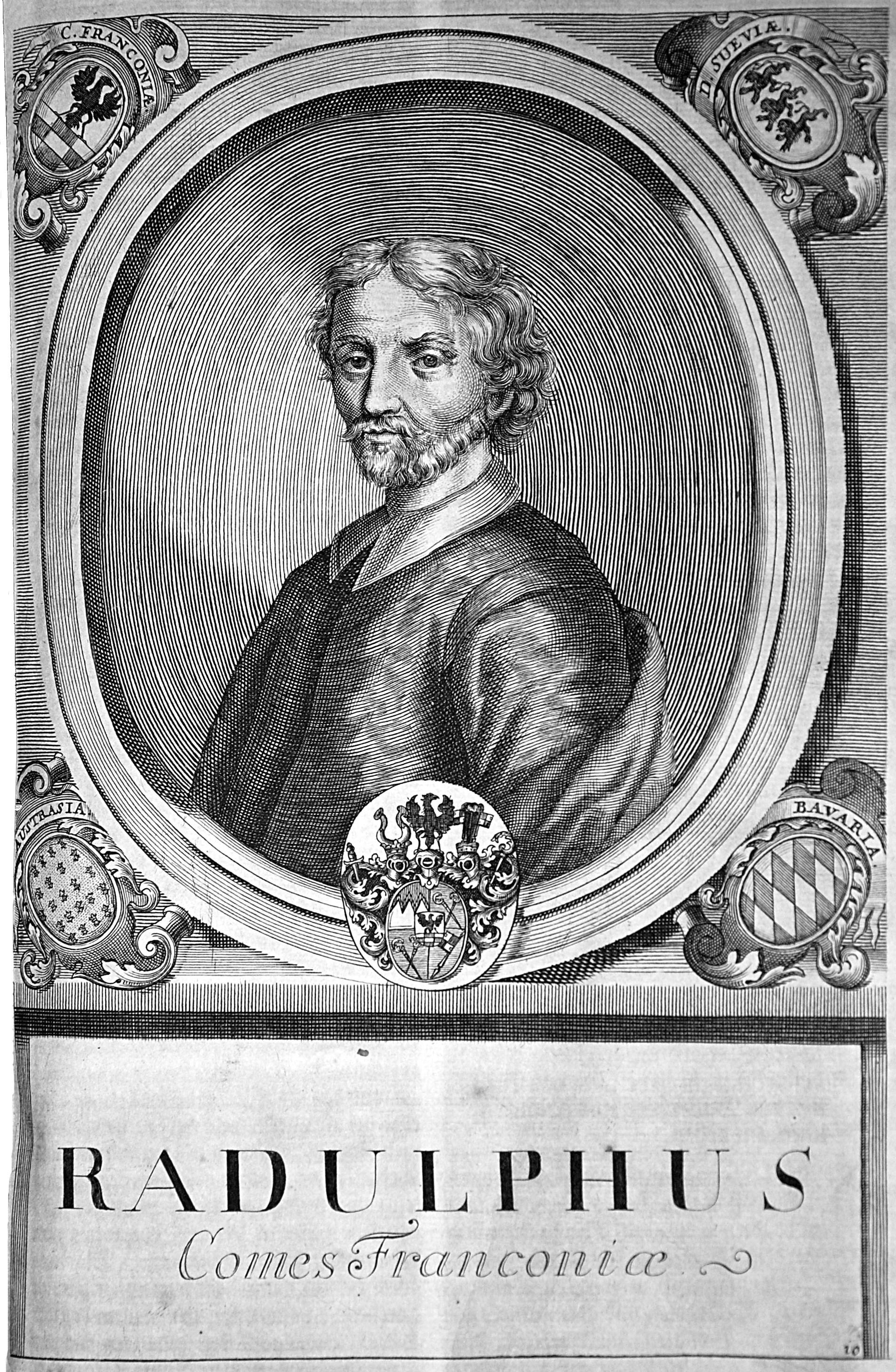 Rudolf I. († 3. August 908 in Thüringen) 892 to 908 Bishop of Würzburg.